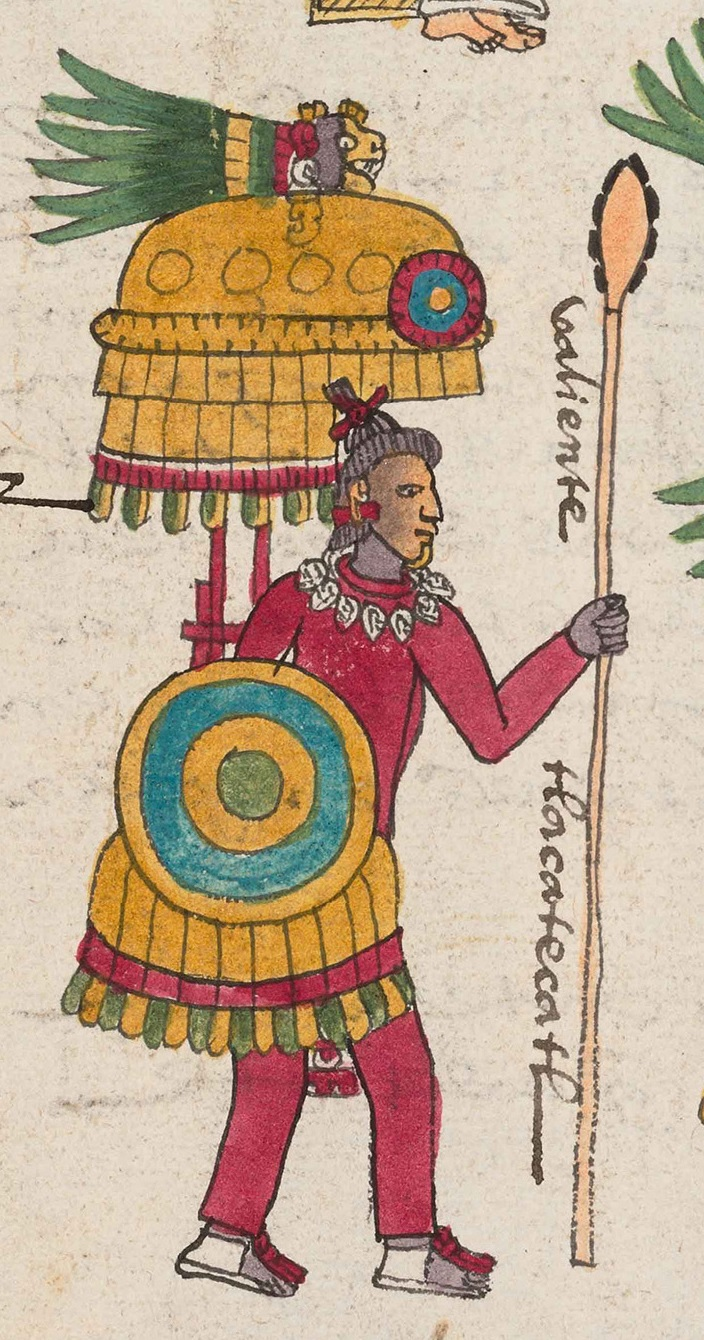 Picture of a tlacateccatl from the codex mendoza fol 67r